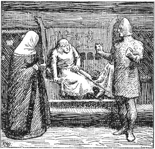 Queen Ingerid and Gregorius excites king Inge Erik Werenskiold: Illustration for Haraldssønnenes saga, Heimskringla 1899-edition. «Dronning Ingerid og Gregorius egger kong Inge.»